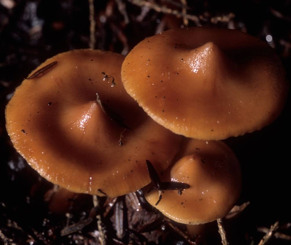 Fruit bodies of the agaric fungus Phaeocollybia christinae (Fr.) R. Heim. Specimens photographed in Laurel Hill State Park, Pennsylvania, USA.